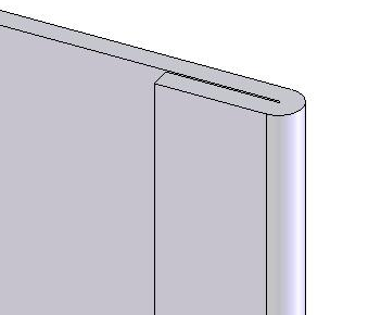 Showing folded edge (hem) of a sheetmetal part. Own work. Patrick Borowski.